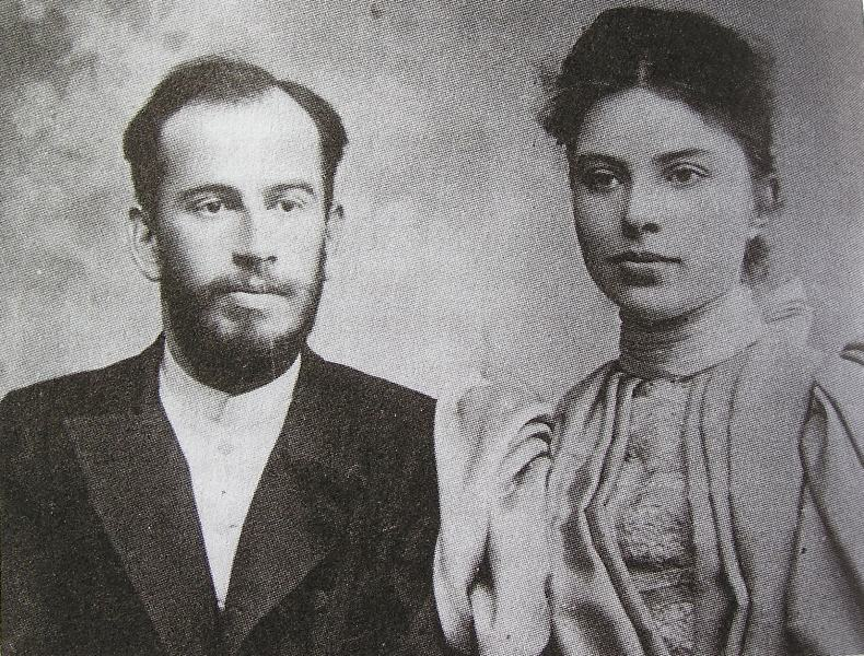 Lev Lvovich Tolstoy and his wife Dora Westerlund